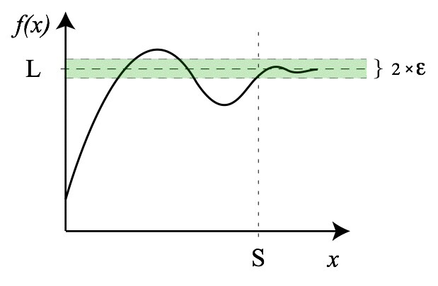 Illustration for a limit of a function where x grows to infinity.